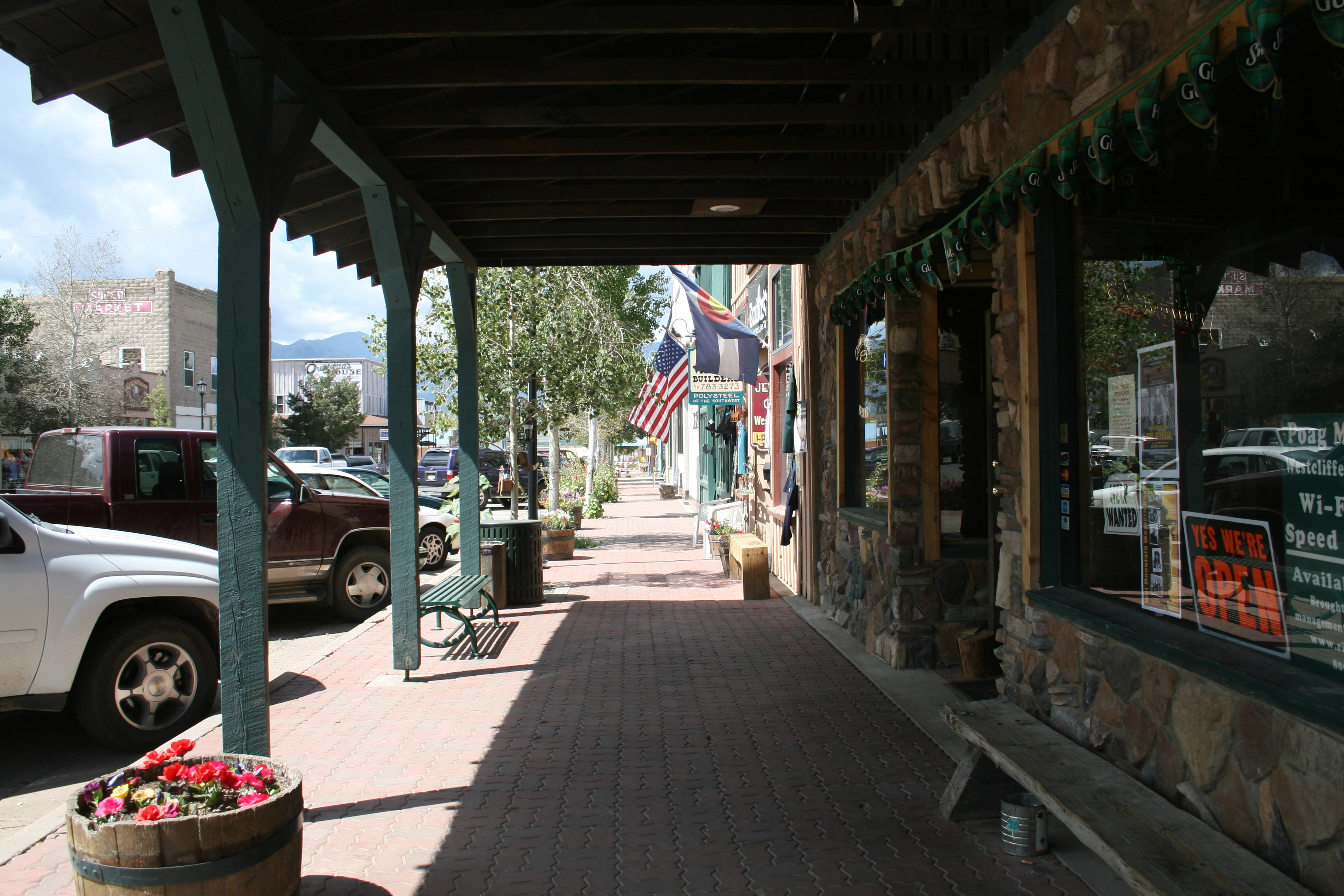 Westcliffe, CO, USA Main Street